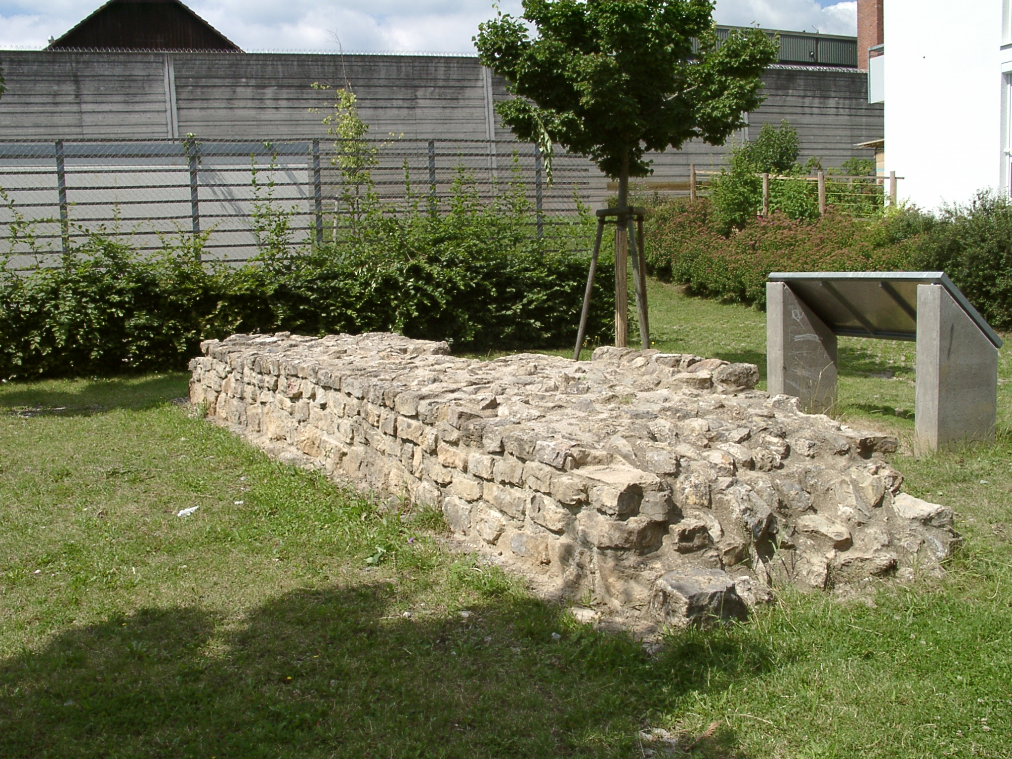 Remains of the City wall of the ancient roman town "Sumelocenna" (Today: Rottenburg am Neckar.)